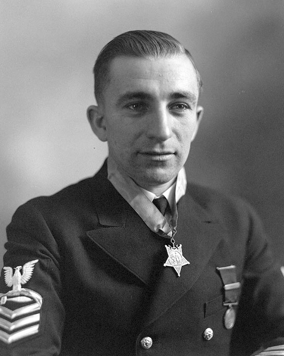 Chief Torpedoman John Mihalowski, United States Navy. Photographed on 19 January 1940, just after being presented with the Medal of Honor for heroism during rescue and salvage operations on USS Squalus (SS-192), following her accidental sinking on 23 May 1939. He was a a member of the rescue chamber during the rescue of Squalus survivors on 24-25 May 1939 and served as a diver during the salvage effort.